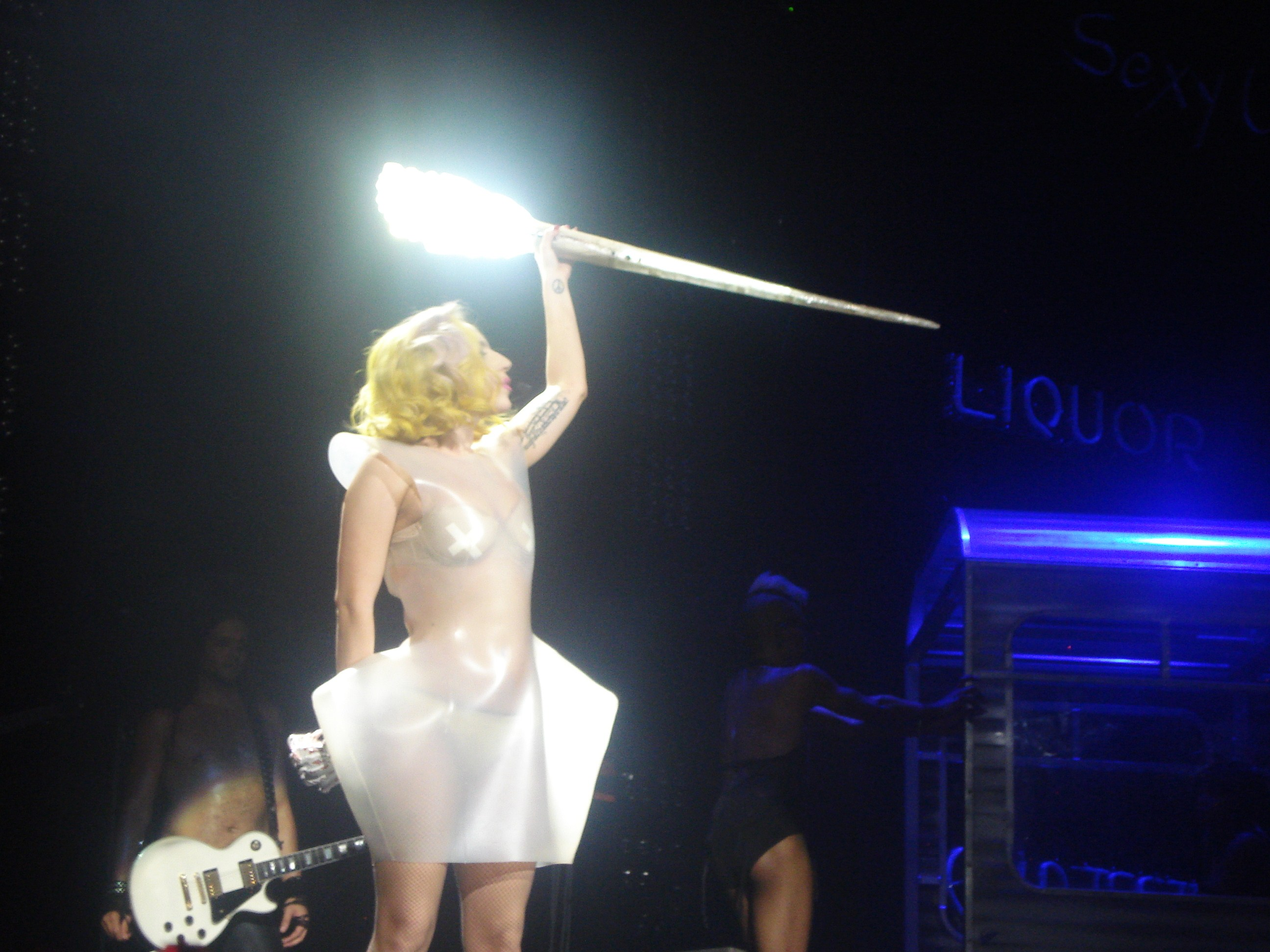 Lady Gaga holds the "disco stick" above her head during her 2010 Monster Ball Tour.